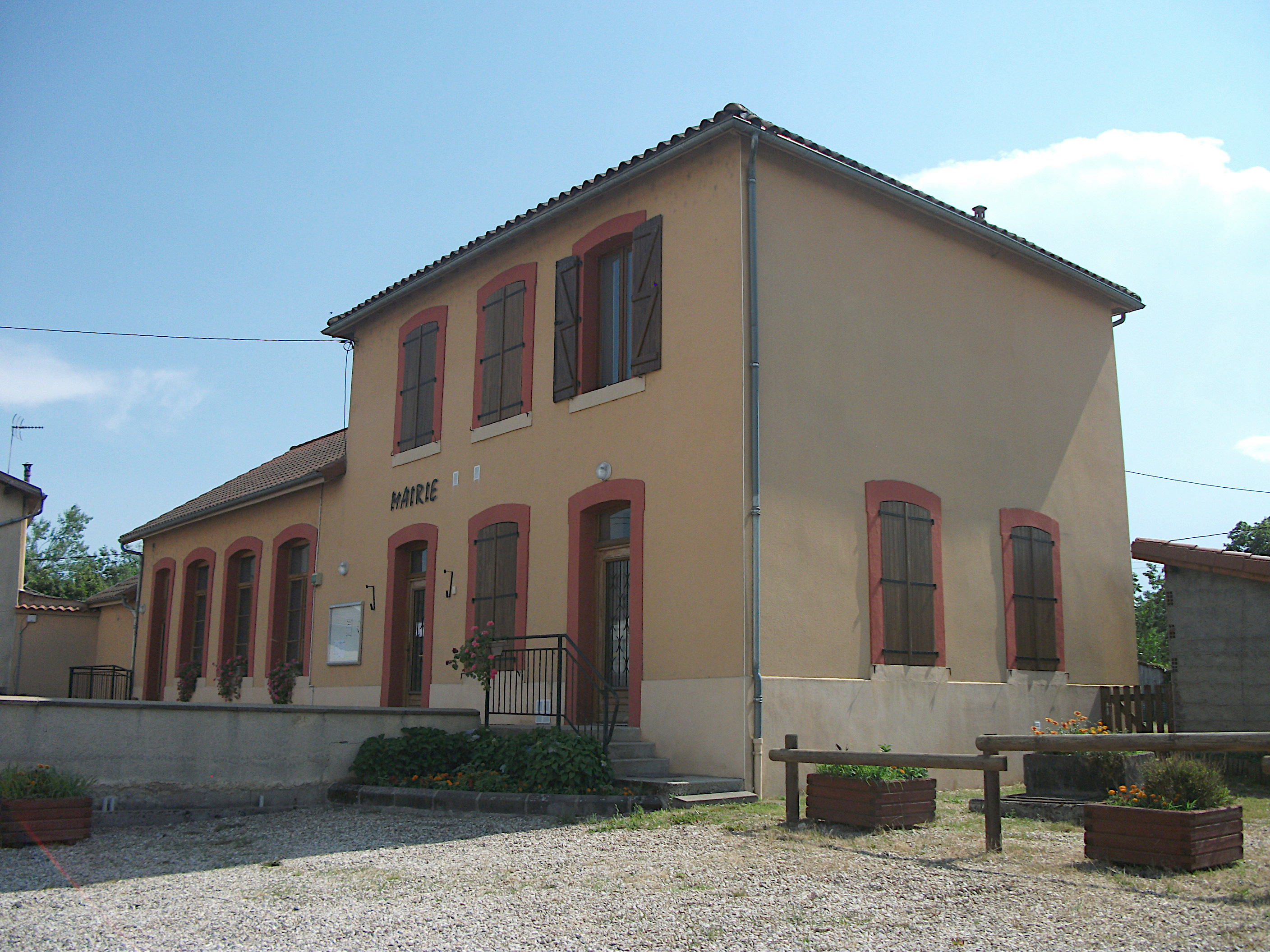 Town hall of Néronde-sur-Dore, Puy-de-Dôme, Auvergne-Rhône-Alpes, France. [18617]